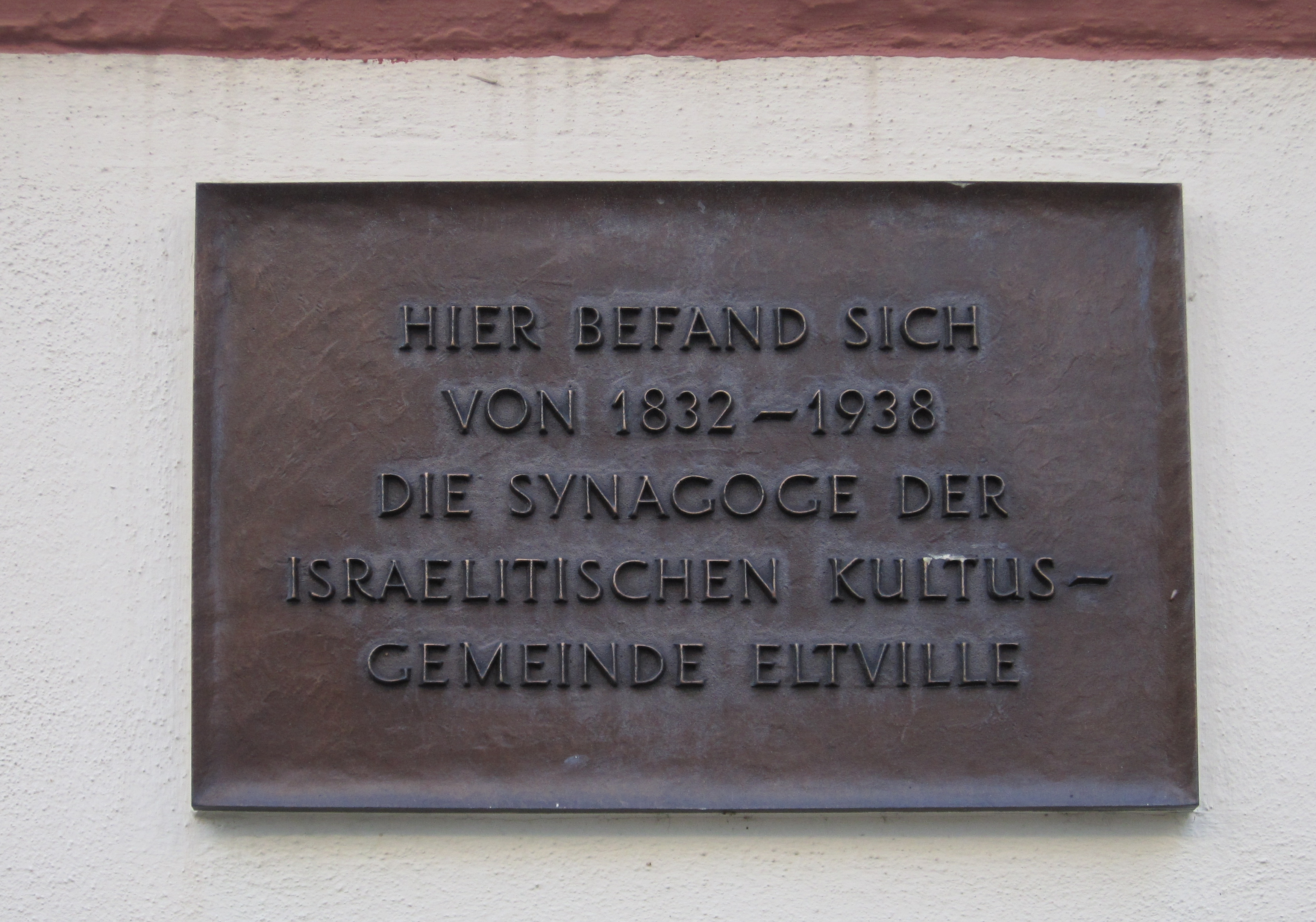 Former synagogue, Eltville am Rhein, Hesse, Germany